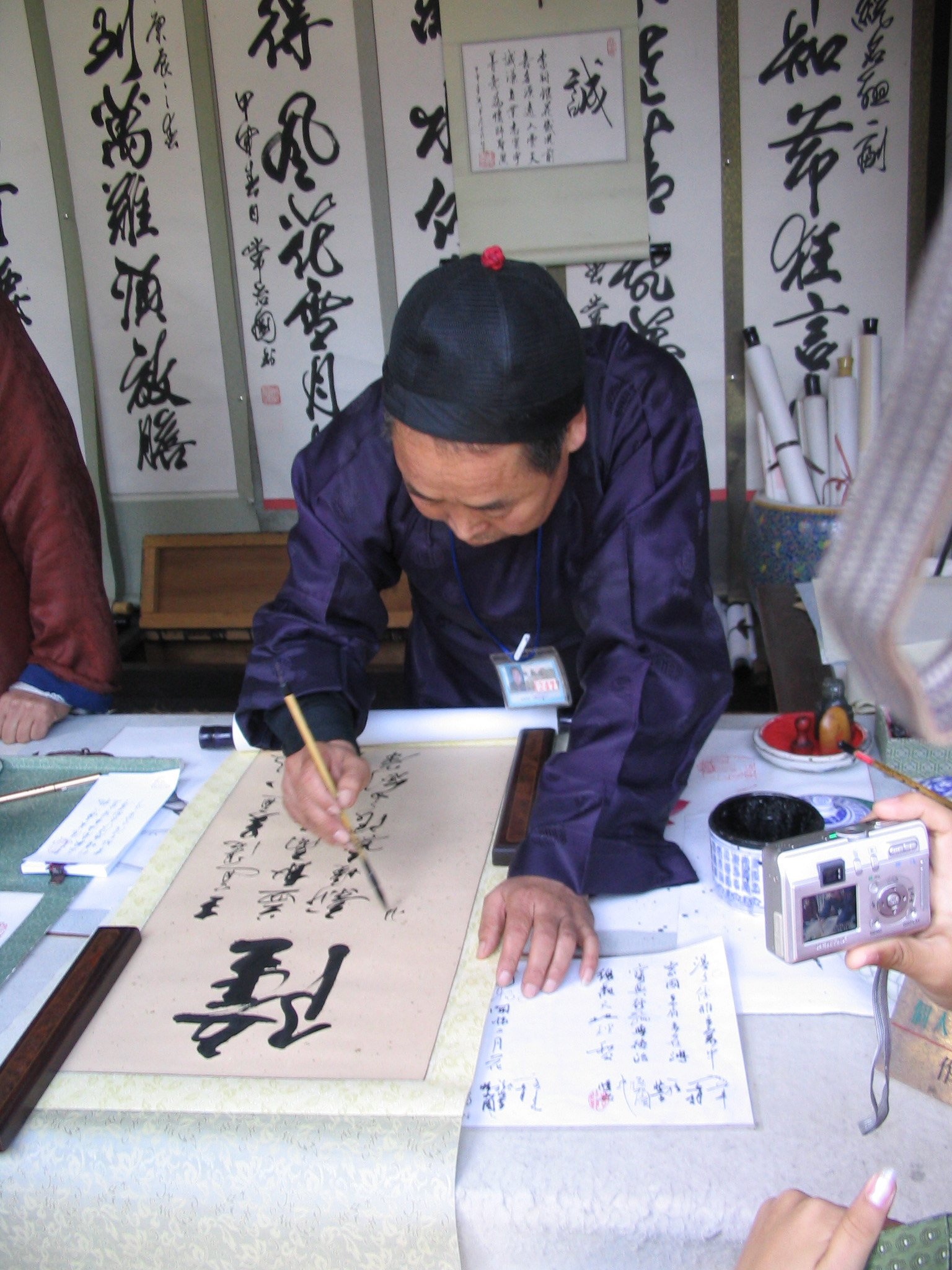 A calligrapher in action at Suzhou Street, Yiheyuan (the summer palace), Beijing.